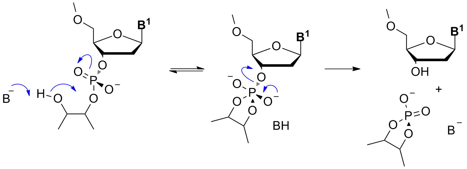 P-O-bond cleavage in universal linker